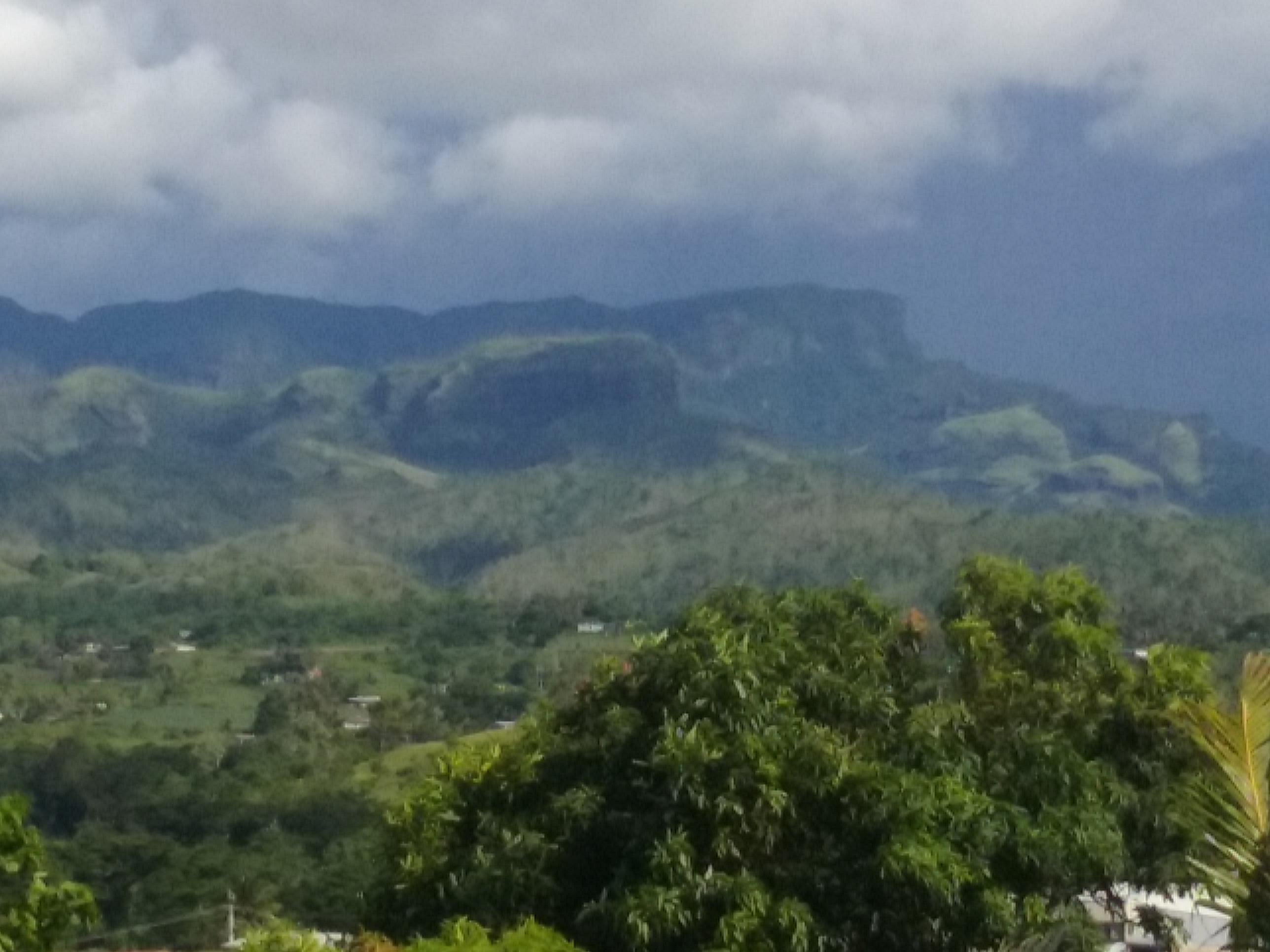 View of Mount Koroyanitu (Mt Evans) from my House